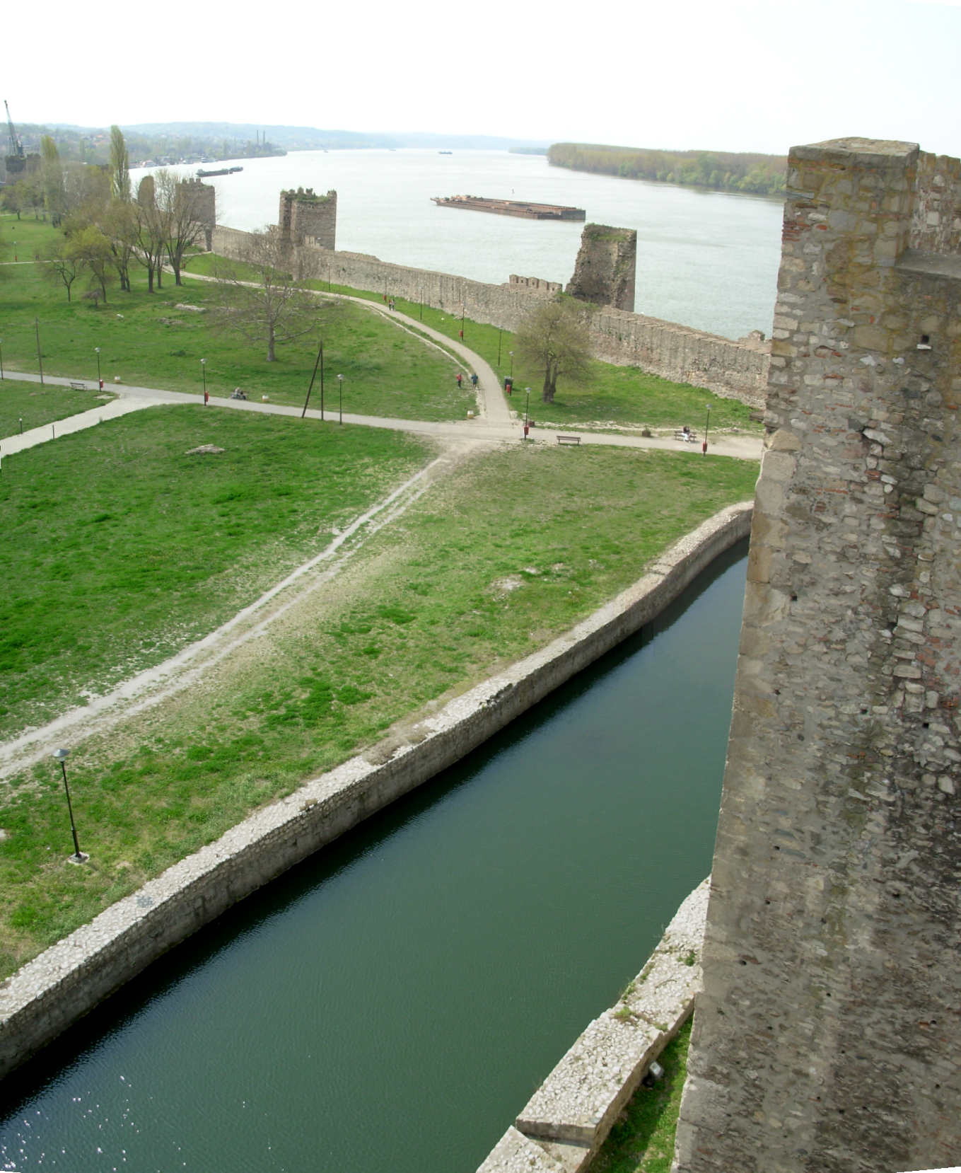 A view to the water trench and the northern wall from the corner small town tower in Smederevo Fortress.